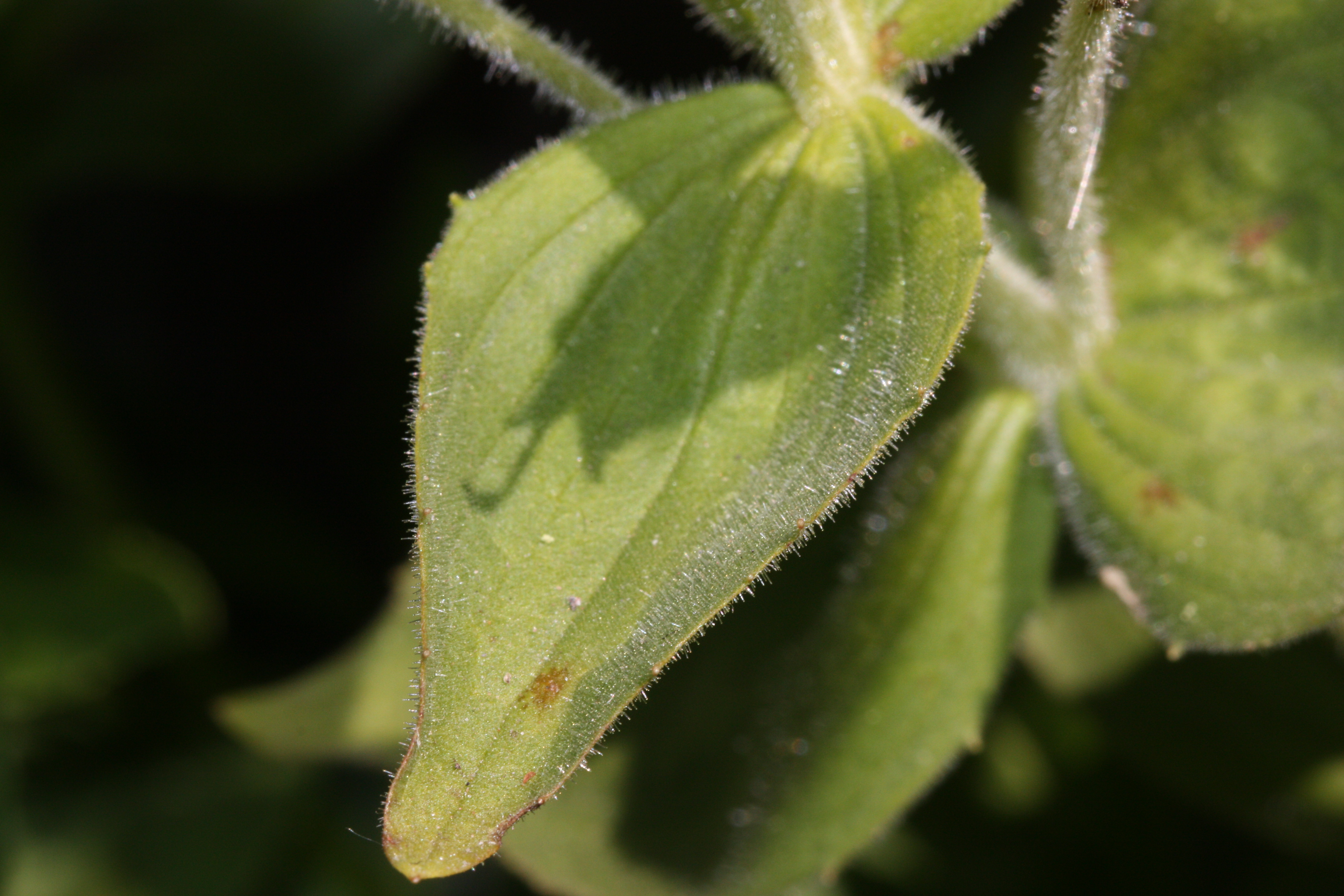 Purple Monkey-flower